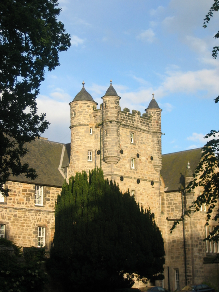 Pinkie House, Loretto School, Musselburgh, Scotland